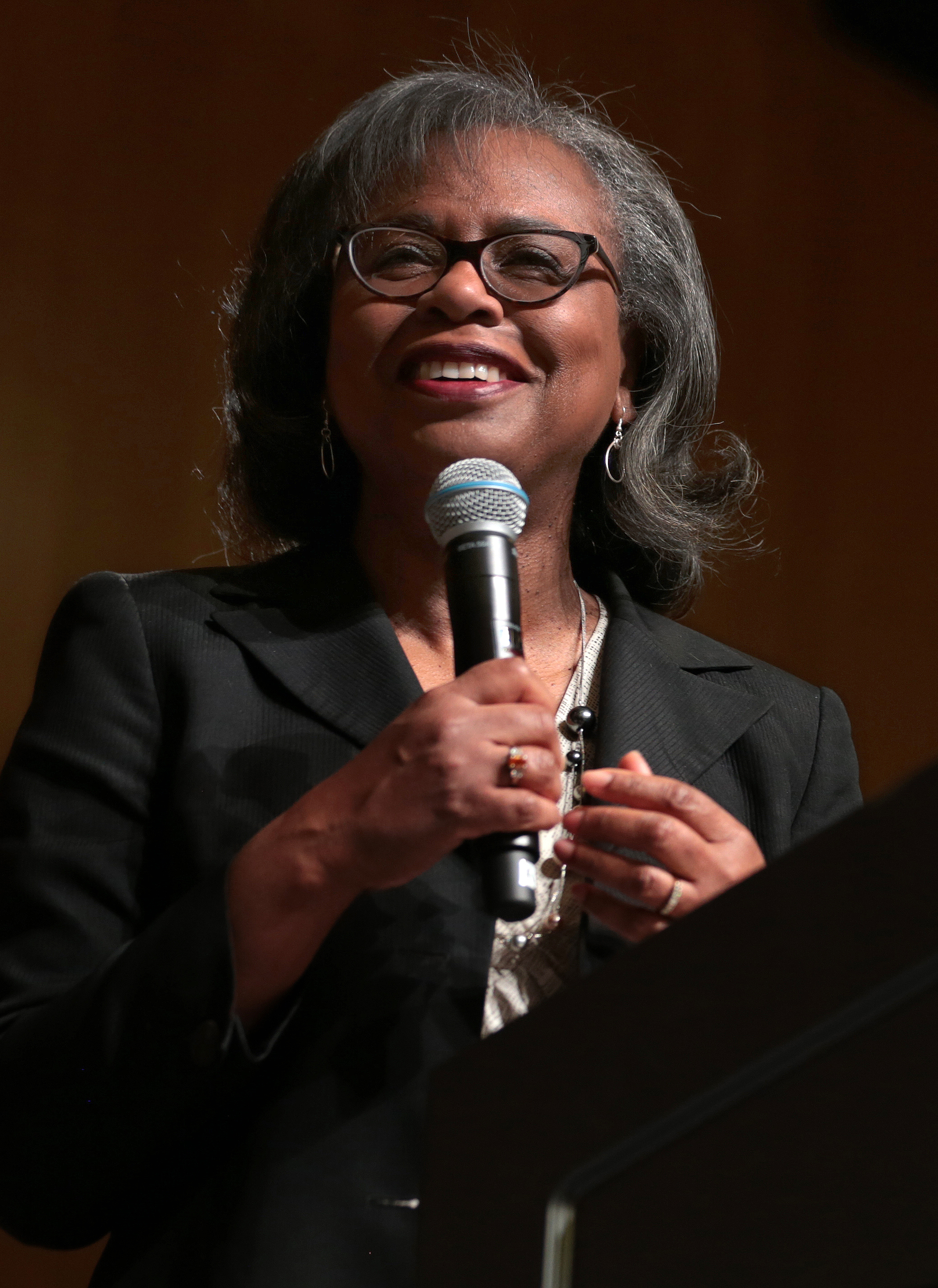 Anita Hill speaking at an event in Tempe, Arizona.